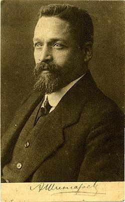 Andrey Shingarev